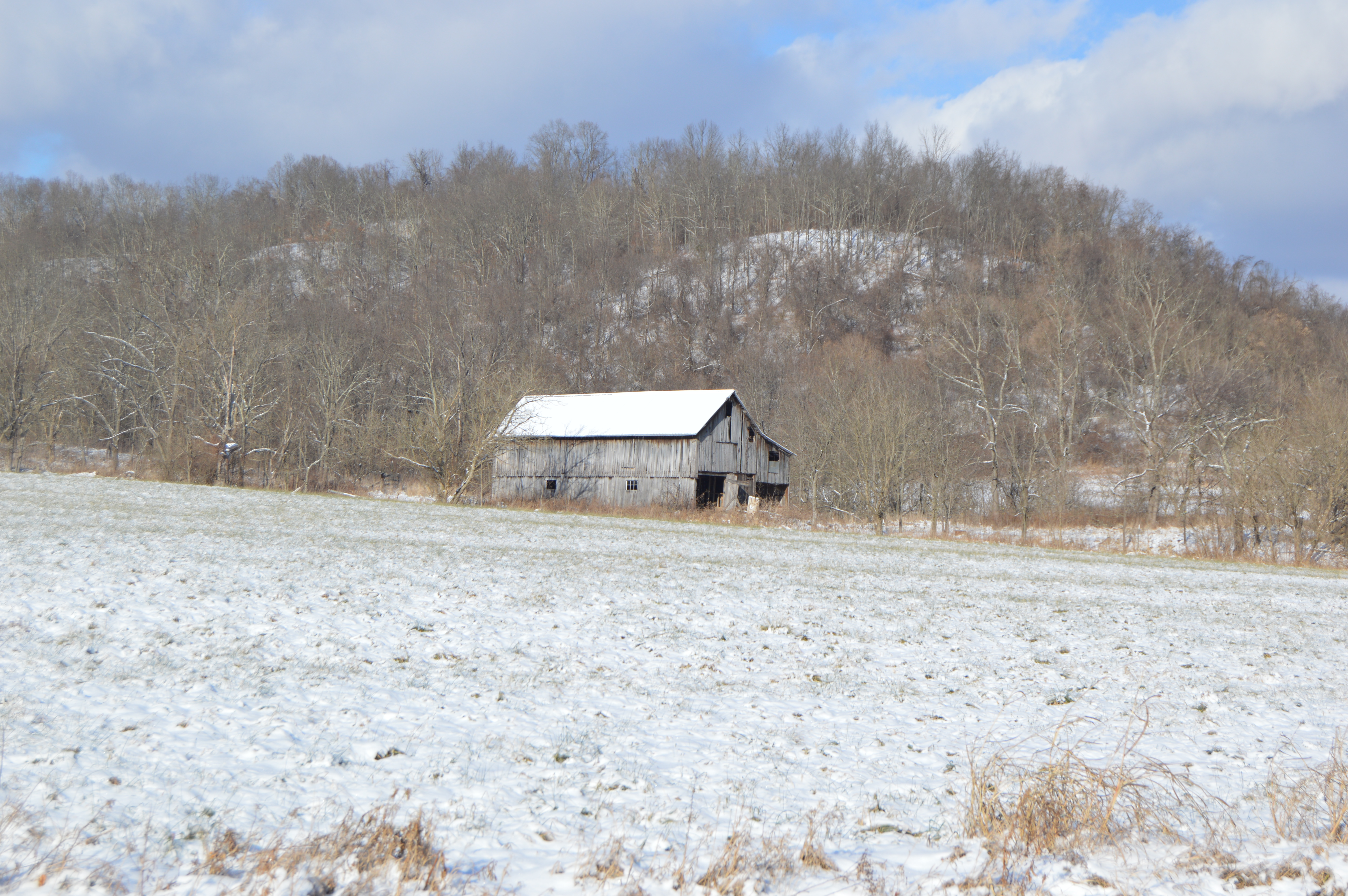 A barn on the property located at 18660 State Route 550, east of Amesville, in Bern Township, Athens County, Ohio, United States.